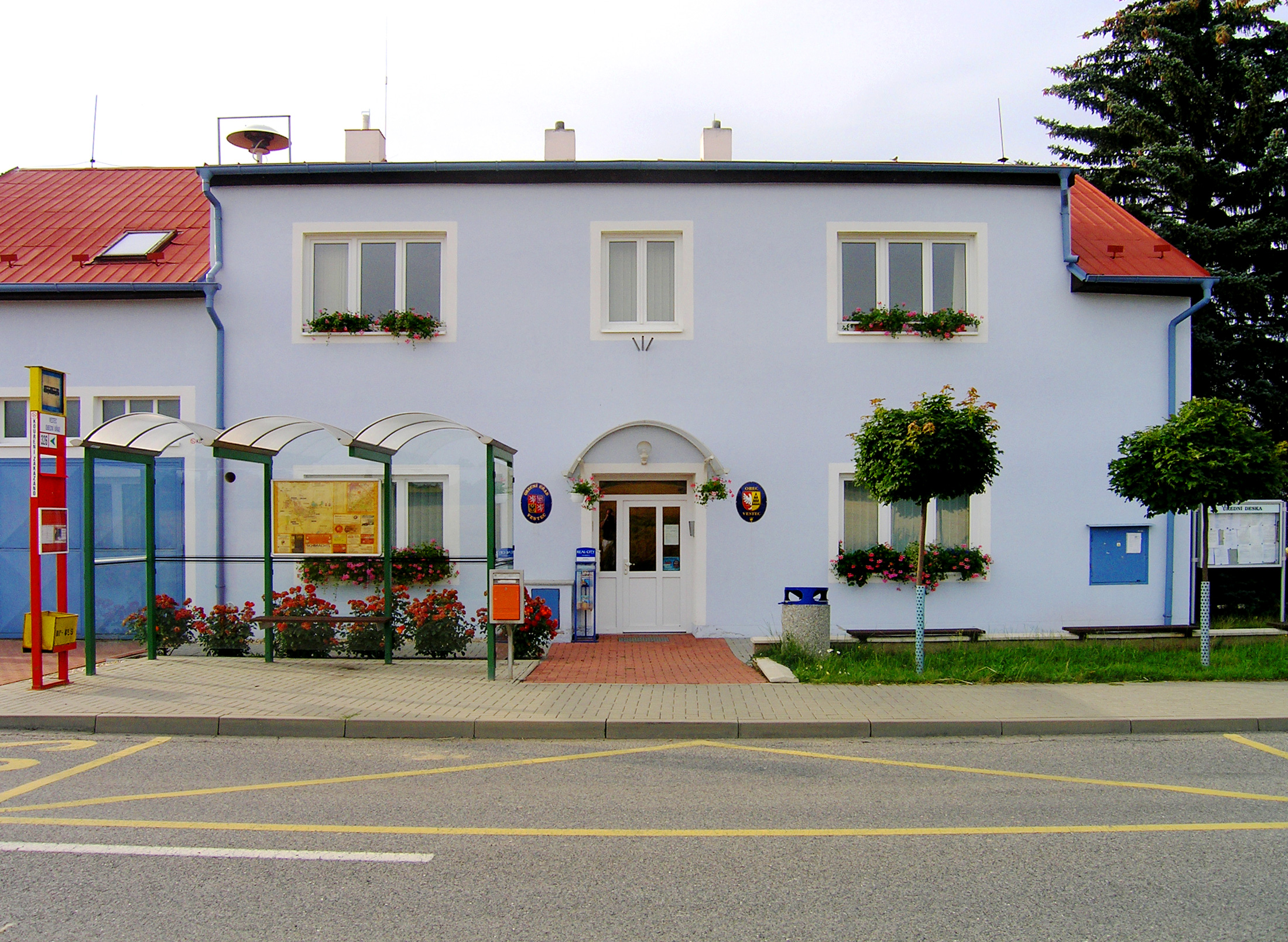 Municipal office in Vestec, Czech Republic